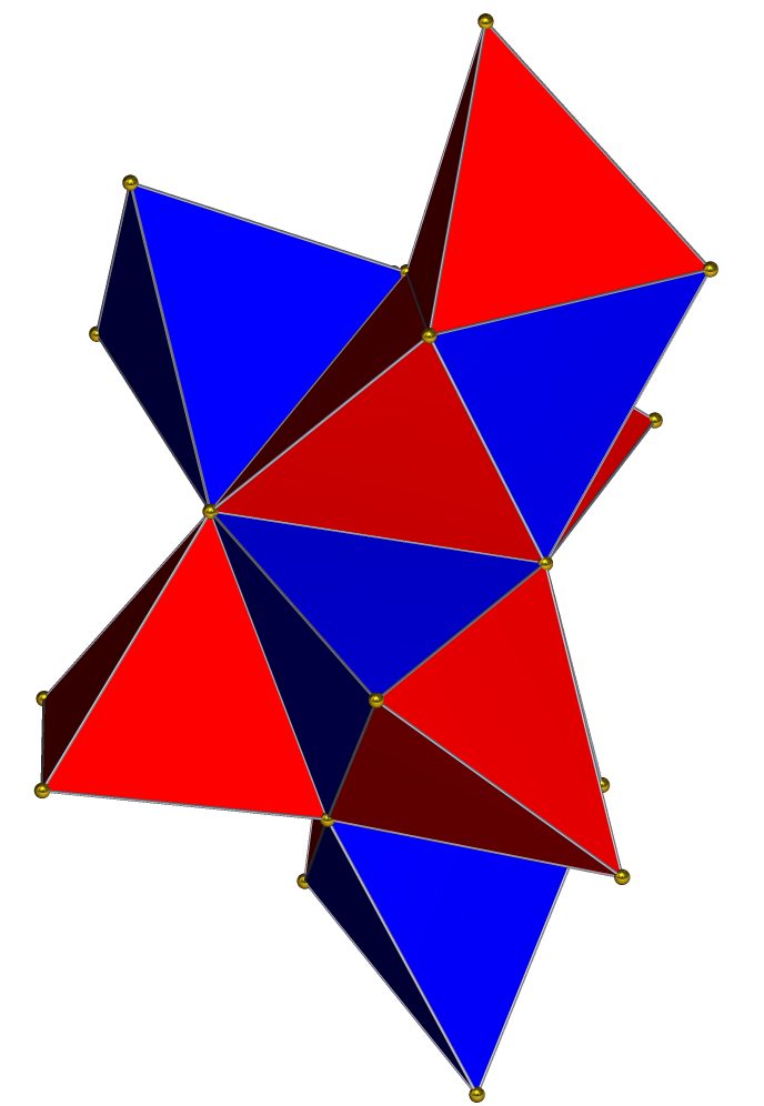 16-cell net